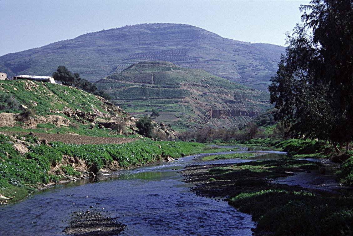 The Tulul adh-Dhahab in spring, seen from the Nahr az-Zarqa (Jabbok) river.